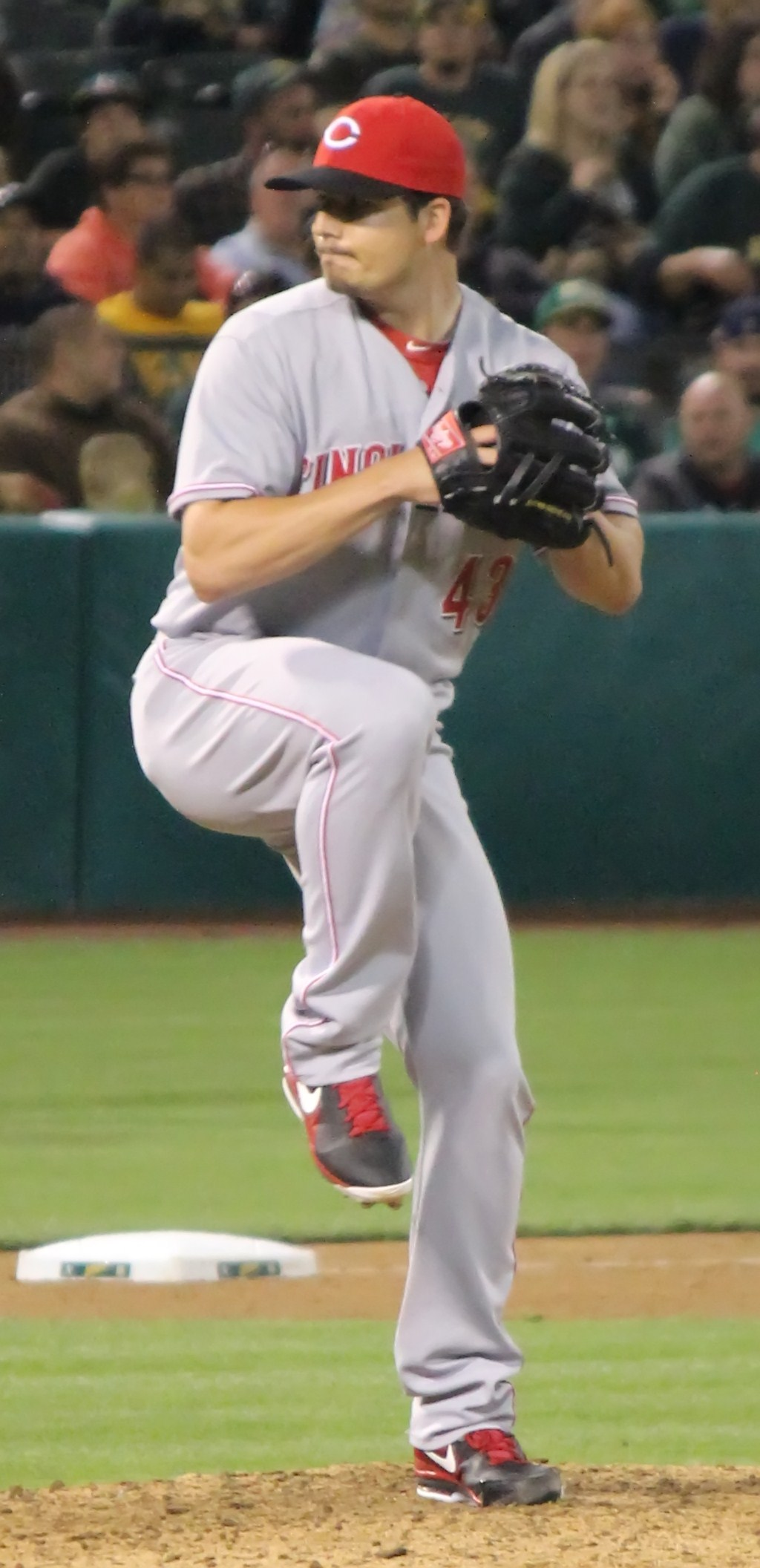 Photo of Manny Parra, 2013-06-25, Oakland CA